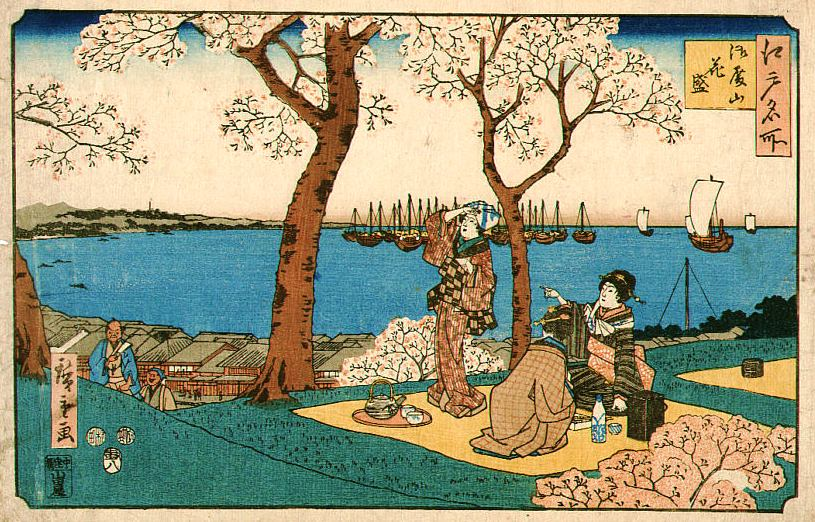 江戸名所 御殿山花盛り Gotenyama Park - Edo Meisho by Hiroshige Ando 1797-1858